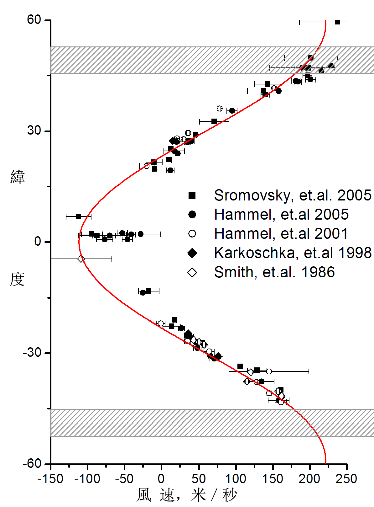 The figure shows zonal winds on Uranus as listed in Hammel, H.B.; Rages, K.; Lockwood, G.W.; et.al. (2001). "New Measurements of the Winds of Uranus". Icarus 153: 229-235. (Table II), in the figure Smith et.al. 1986, Karkoschka et.al.1998, Hammel et.al.2001. Hammel, H.B.; de Pater, I.; Gibbard, S.; et.al. (2005). "Uranus in 2003: Zonal winds, banded structure, and discrete features" (pdf). Icarus 175: 534-545. (Table 3), in the figure Hammel et.al. 2005) Sromovsky, L.A.; Fry, P.M. (2005). "Dynamics of cloud features on Uranus". Icarus 179: 459-483. (Table 7), in the figure Sromovsky et.al 2005 Shaded areas show southern collar and its future northern counterpart. The red curve is a symmetrical fit from Sromovsky et.al 2005.